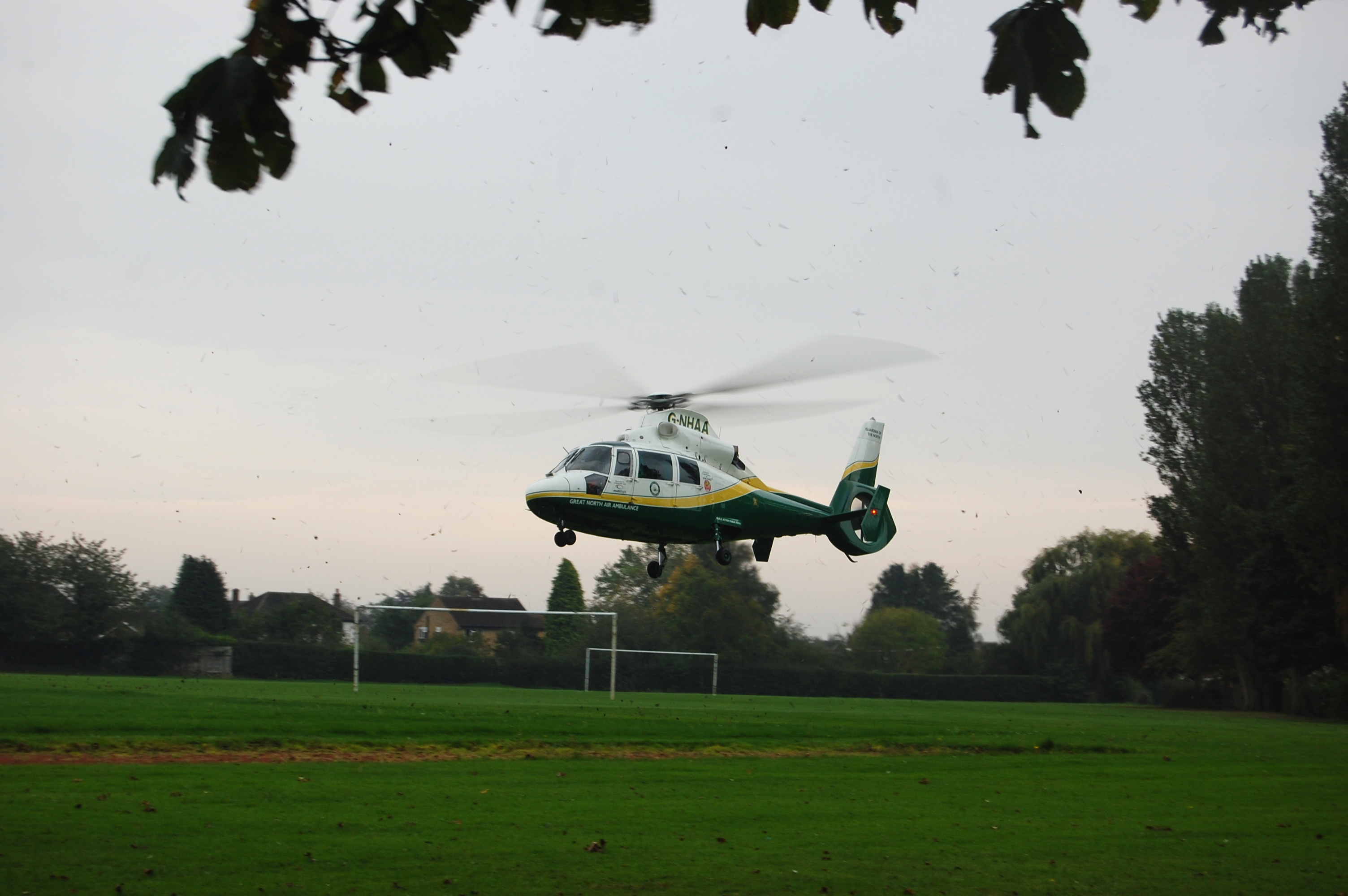 Using the playing fields at Northallerton College as a landing site.